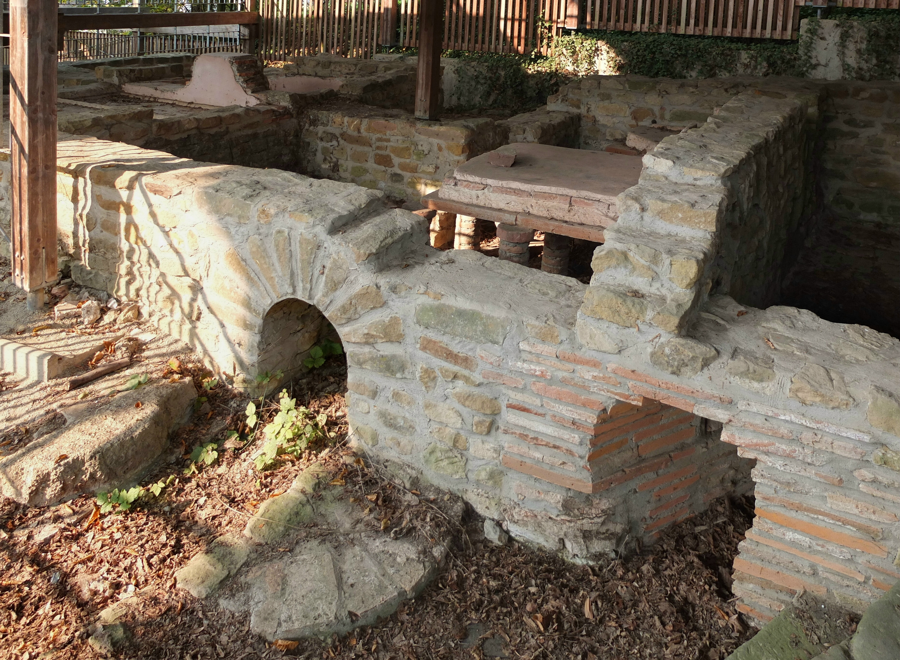 Roman underfloor heating in the Villa rustica Bollendorf, Germany This is a photograph of an architectural monument.It is on the list of cultural monuments of Bollendorf